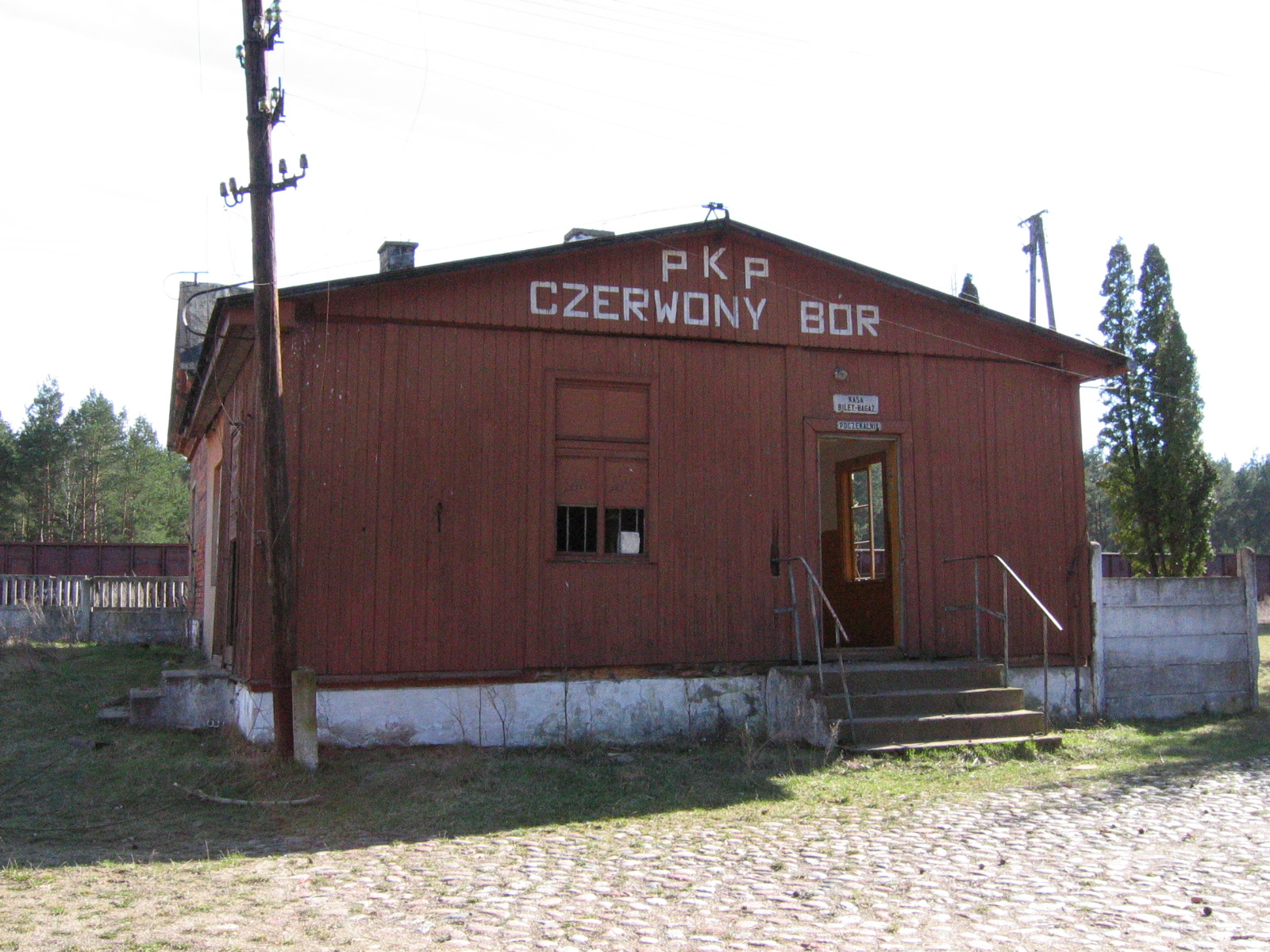 Abandoned railroad station "PKP Czerwony Bór", main building